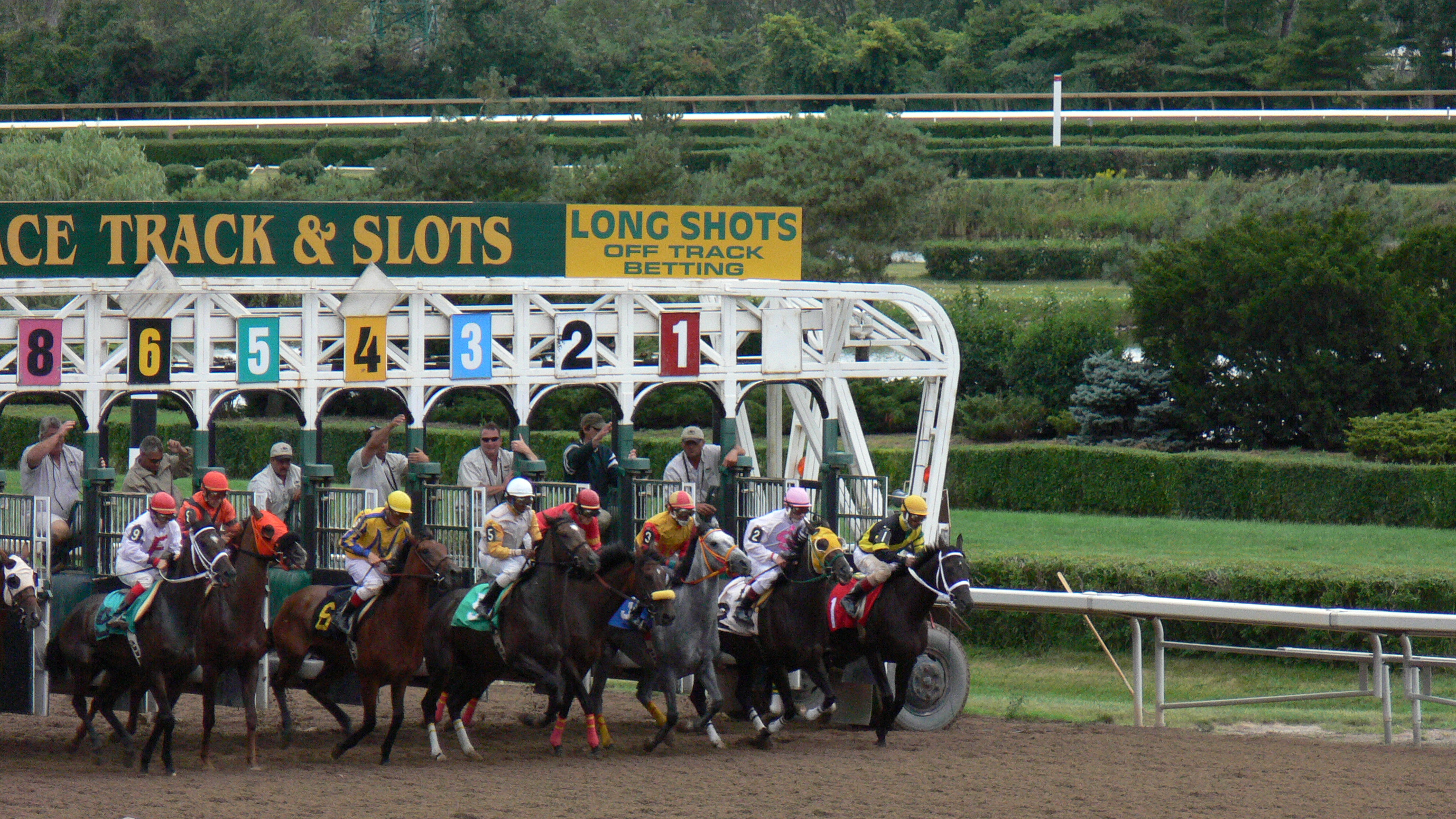 they're off